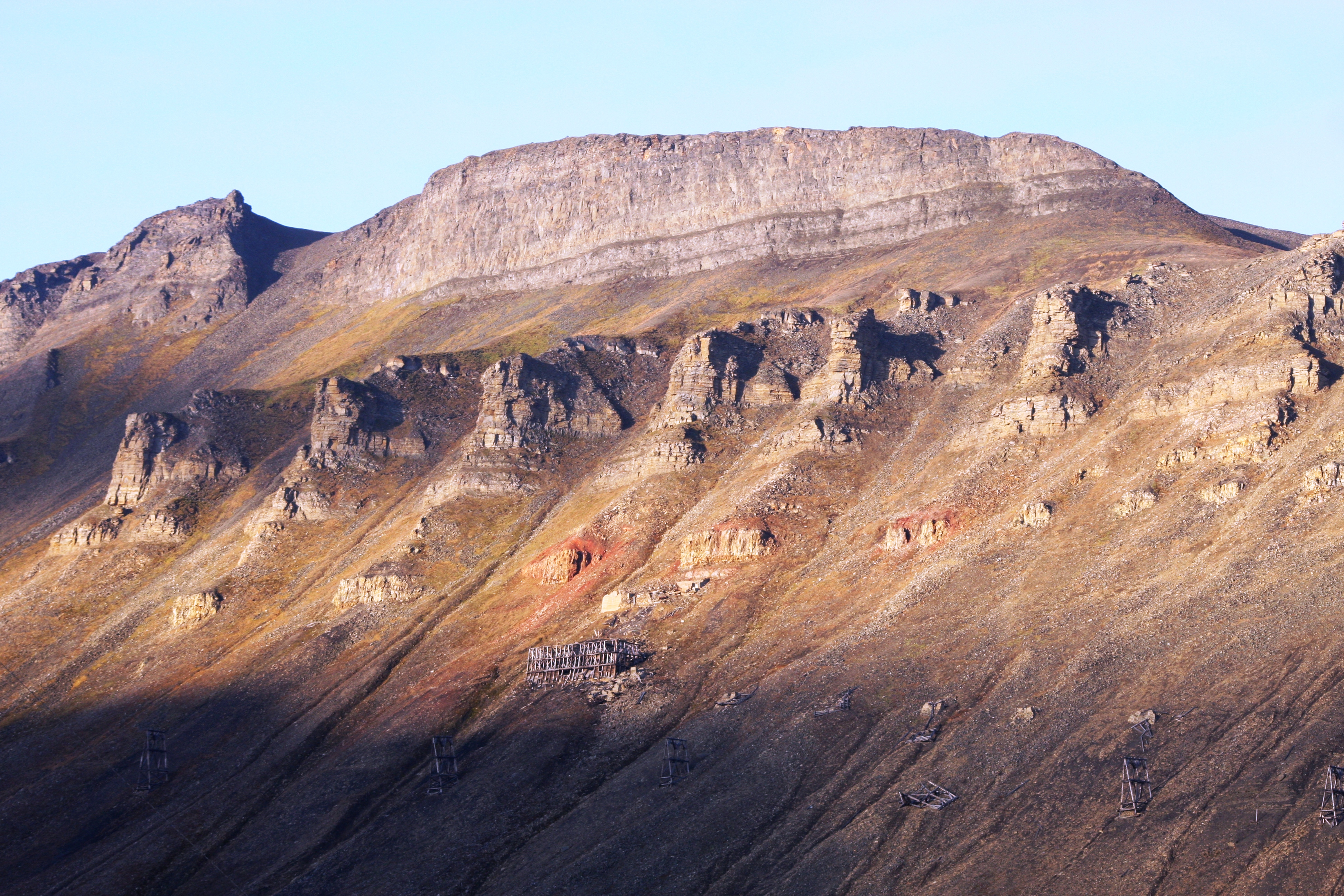 Mine No 1a ("Amerikanergruva"), Longyearbyen (Svalbard, Norway)